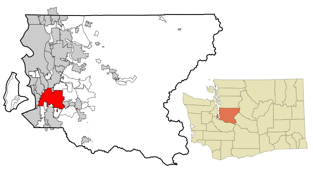 Map showing incorporated and unincorporated areas in King County Washington, Kent is highlighted